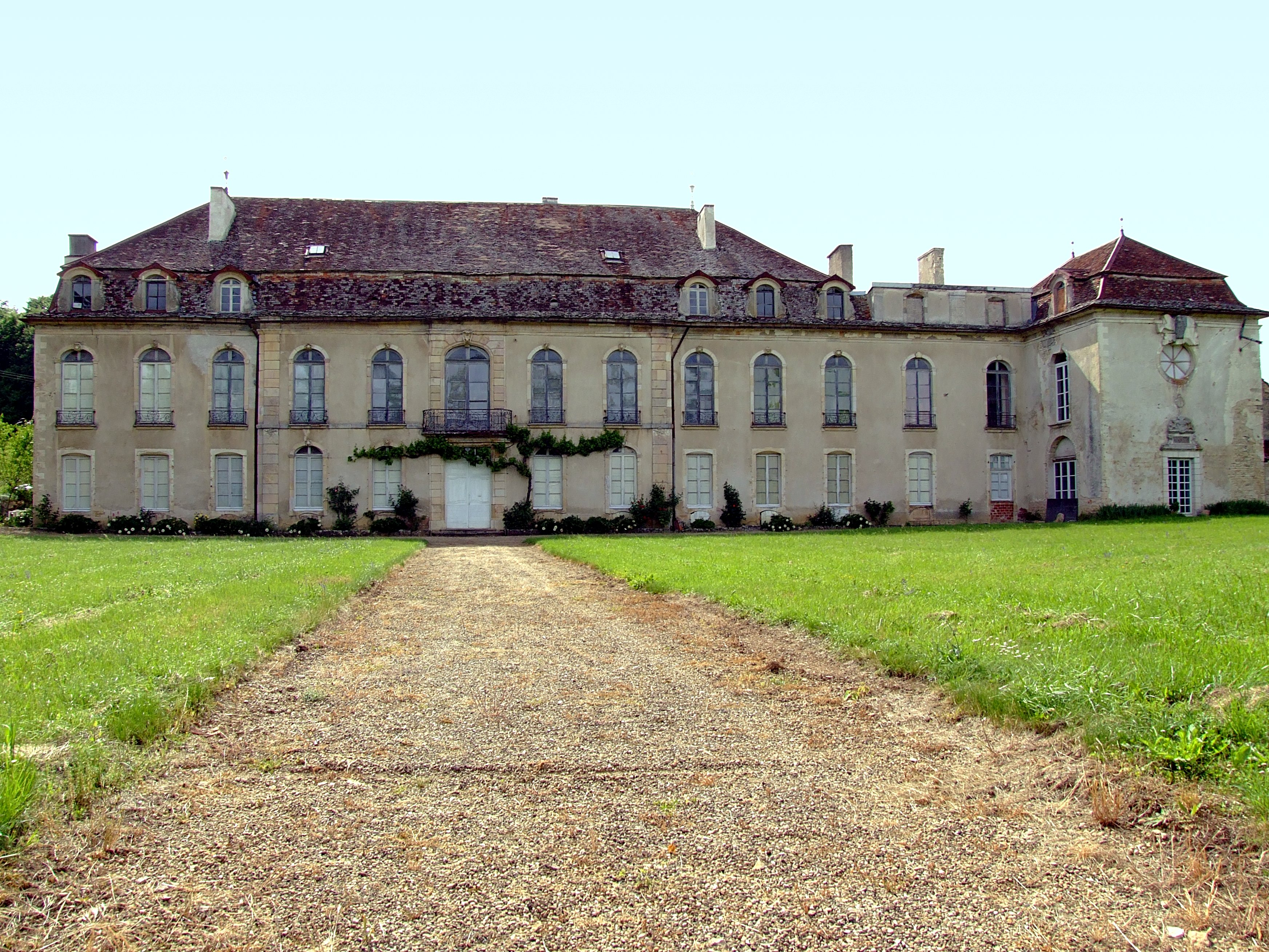 The castle of Monculot, near Urcy (Burgondy, Côte-d'Or, France) where famous French Romantic poet Alphonse de Lamartine spent his childhood.